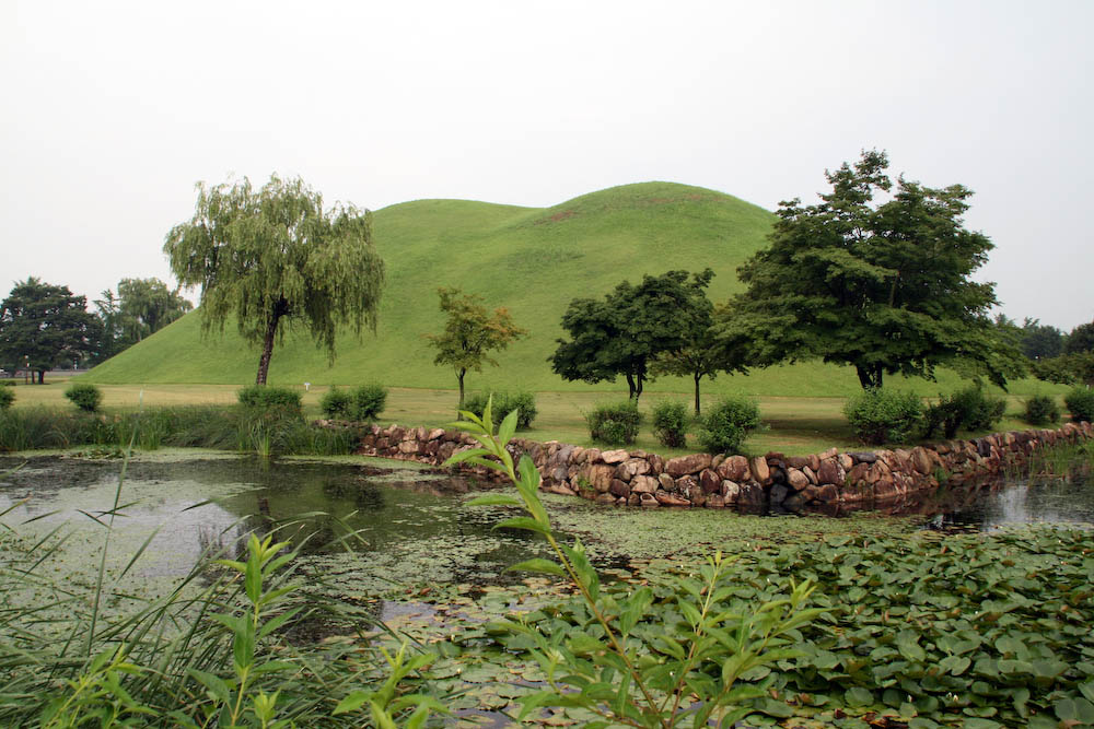 Tumuli Park, in downtown Gyeongju. More photos at